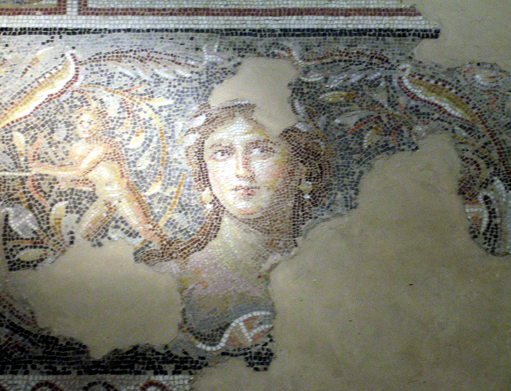 "Mona Lisa of the Galilee", ancient mosaic in Tzippori (Sepphoris). Cropped version: File:Mona Lisa of the Galilee.jpg.